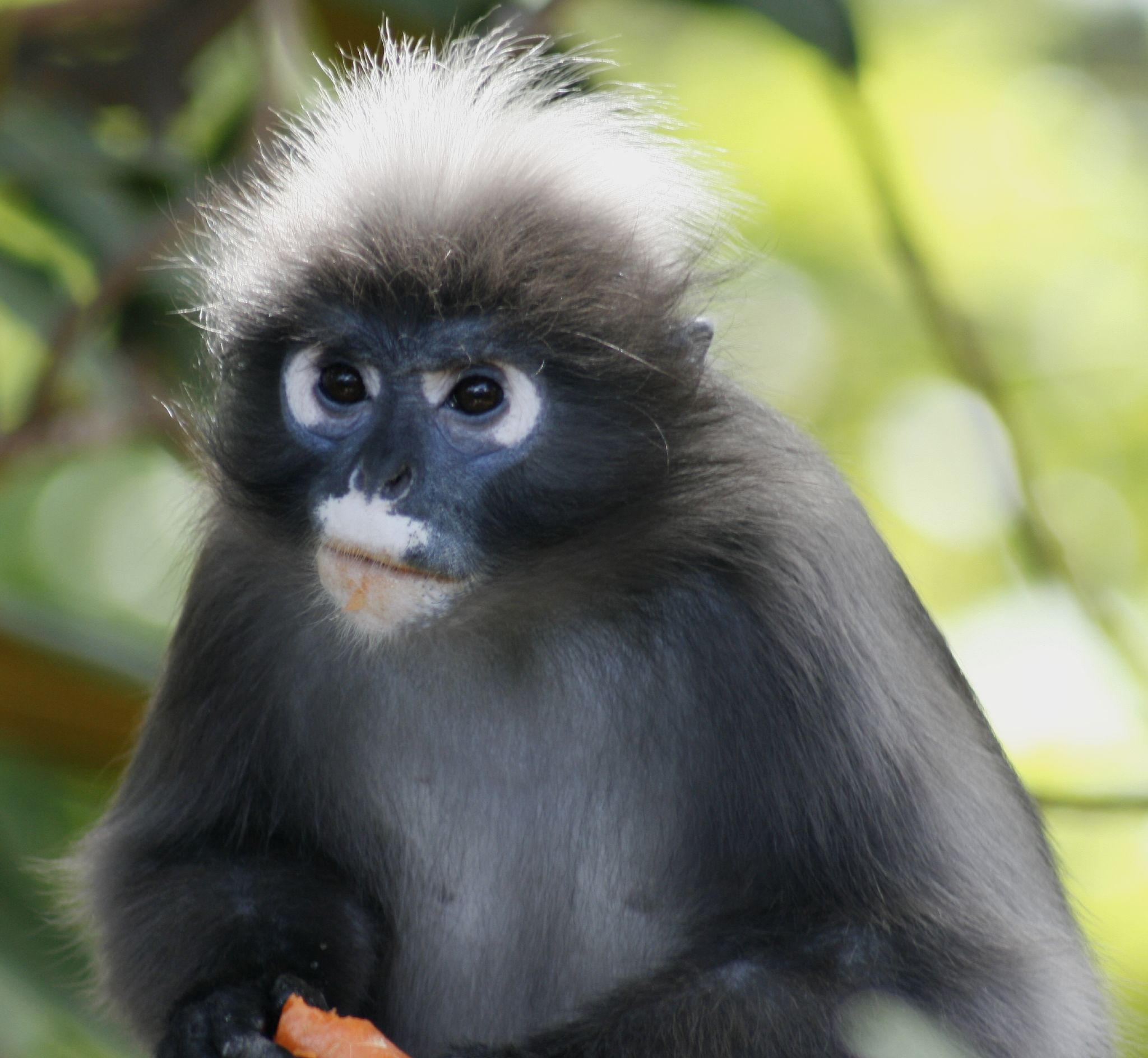 Dusky leaf monkey (Trachypithecus obscurus}